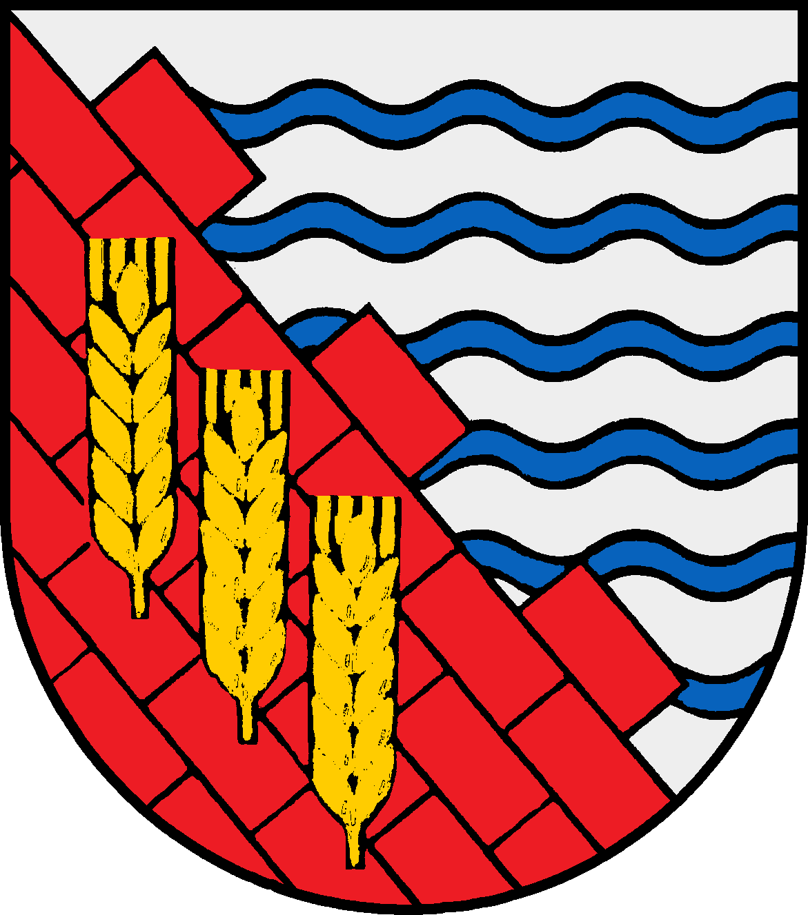 Coat of arms of the municipality Wahlstorf in Schleswig-Holstein, Germany.